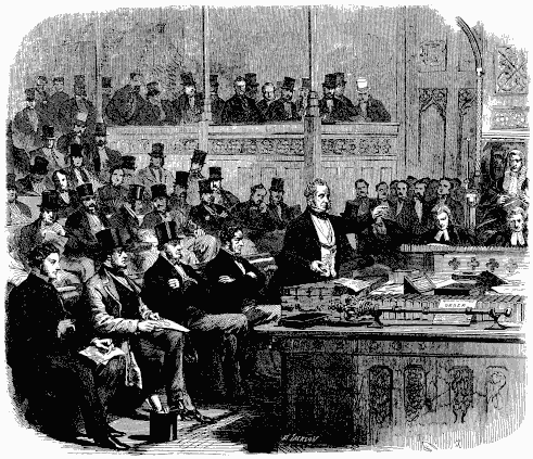 Lord Palmerston addressing the House of Commons. Public domain image from Illustrated London News